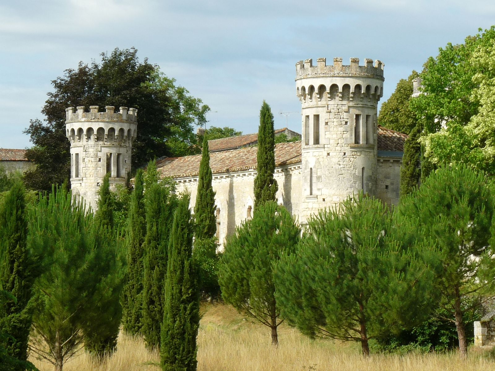 castle of Torsac, Charente, SW France